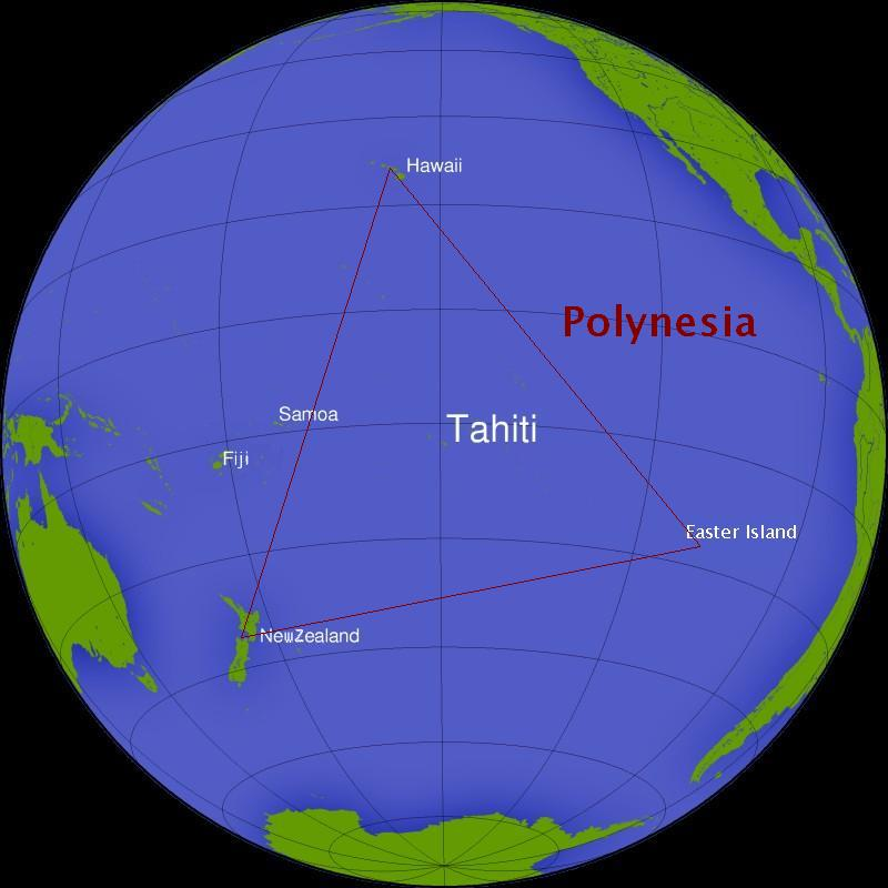 This is a deleted work uploaded for comparision purposes Restore history for full details